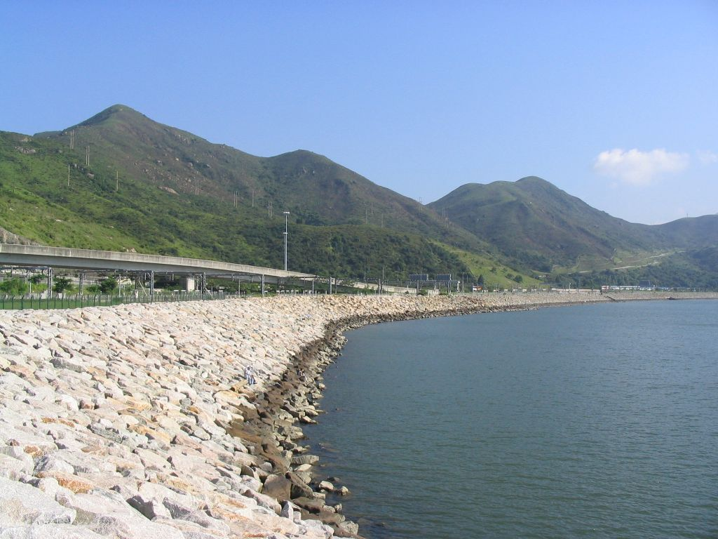 Yam O Wan